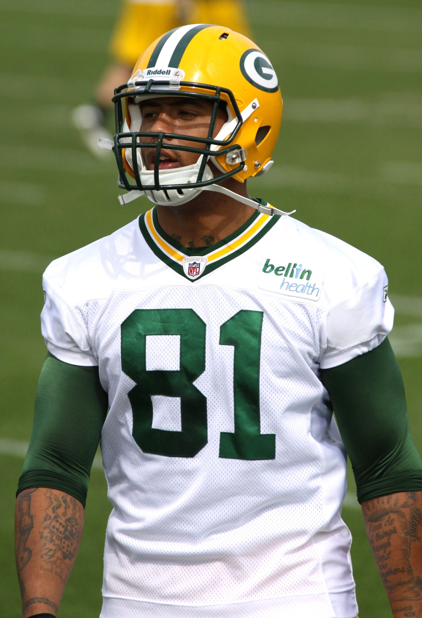 Andrew Quarless, August 30, 2011, Green Bay, Wisconsin